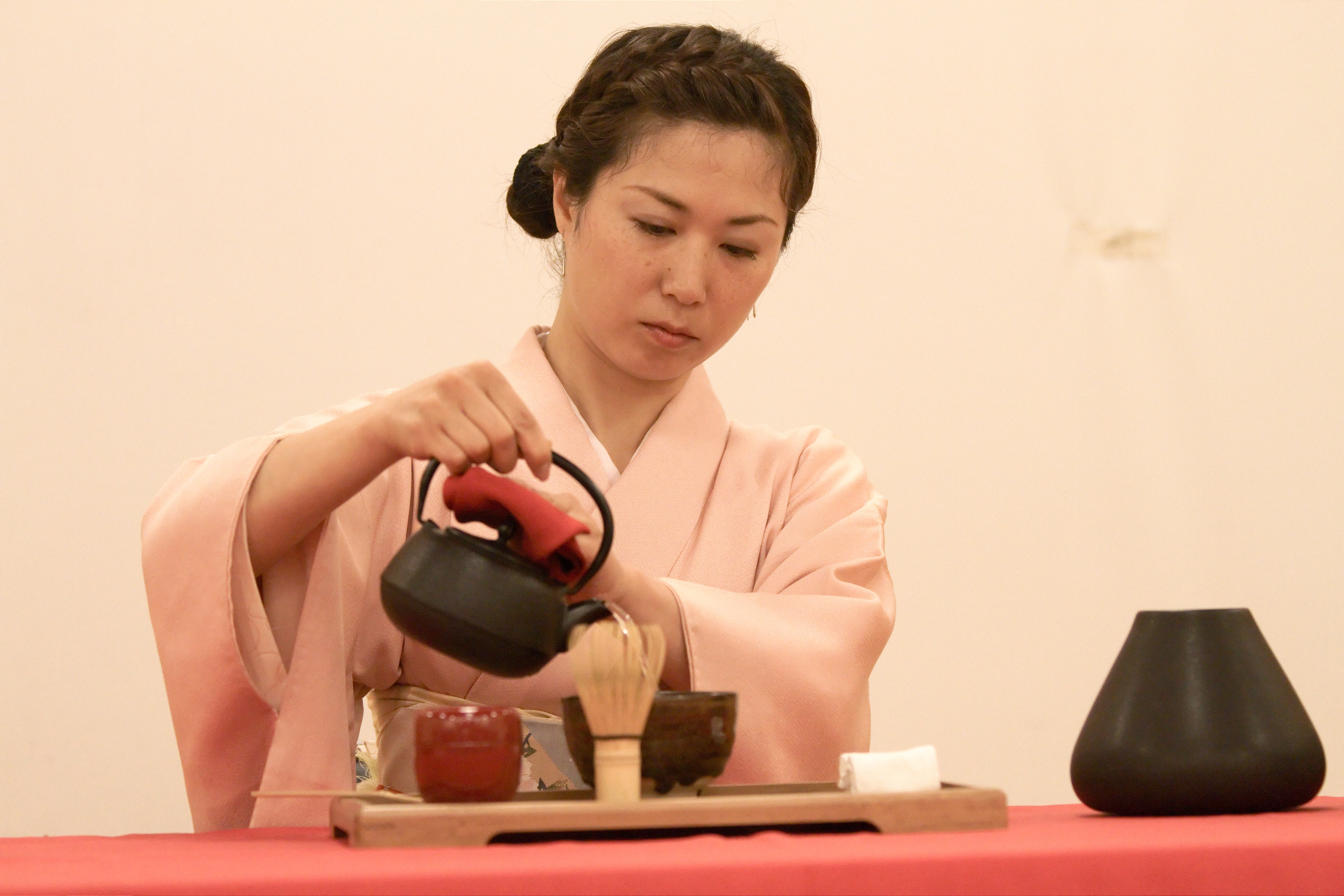 Japanese tea ceremony at Japan Matsuri 2010 (Montpellier, France).